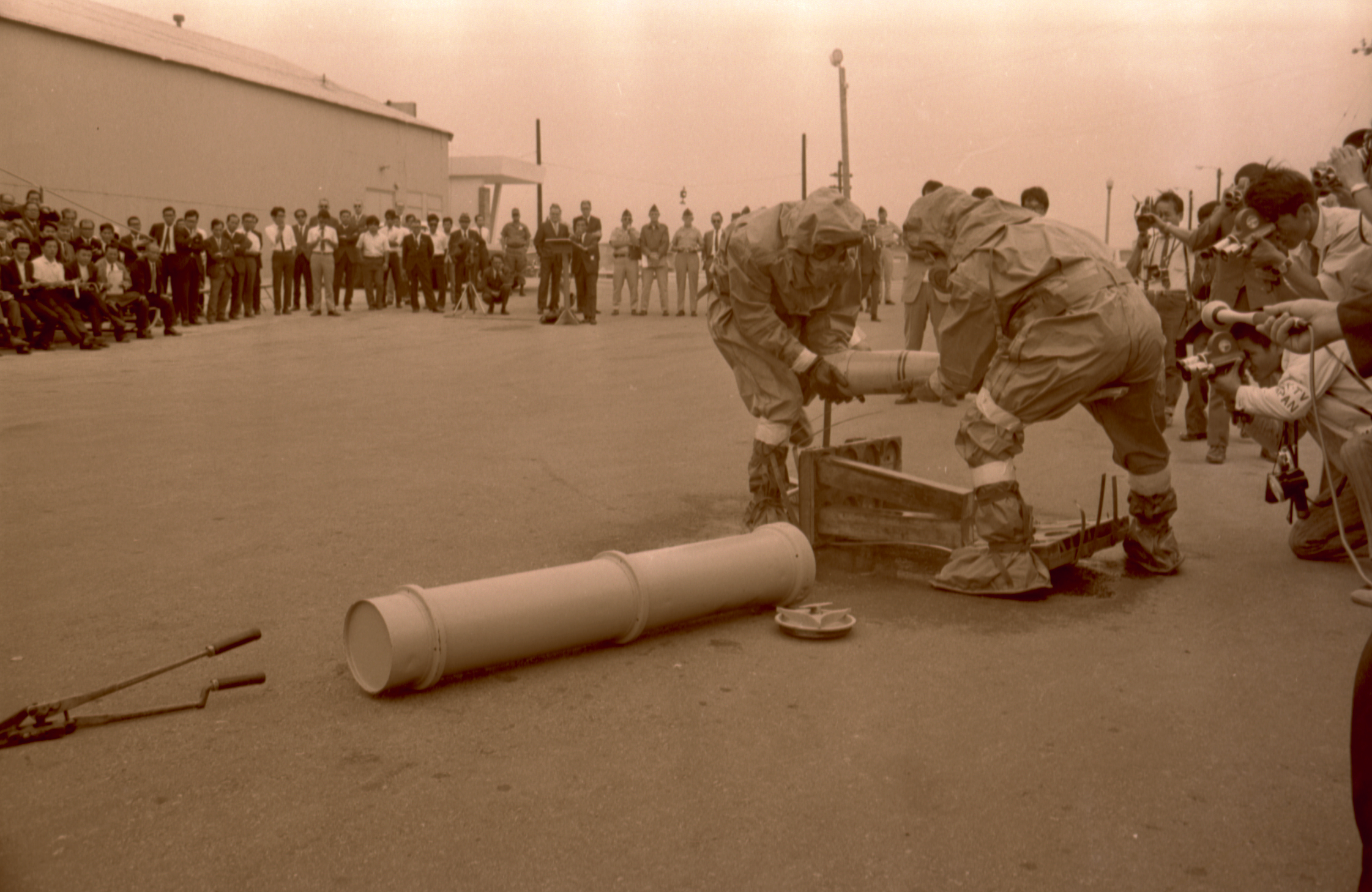 Camp Kinser, Okinawa. Briefing session For Operation Red Hat, May 11, 1971, a demonstration for Japanese press of actions that would be taken in the event a chemical munition was found to be leaking during transport. Retrograde chemicals from Vietnam are in background.